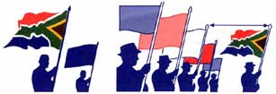 See Image:SouthAfricaFlagParade.jpg